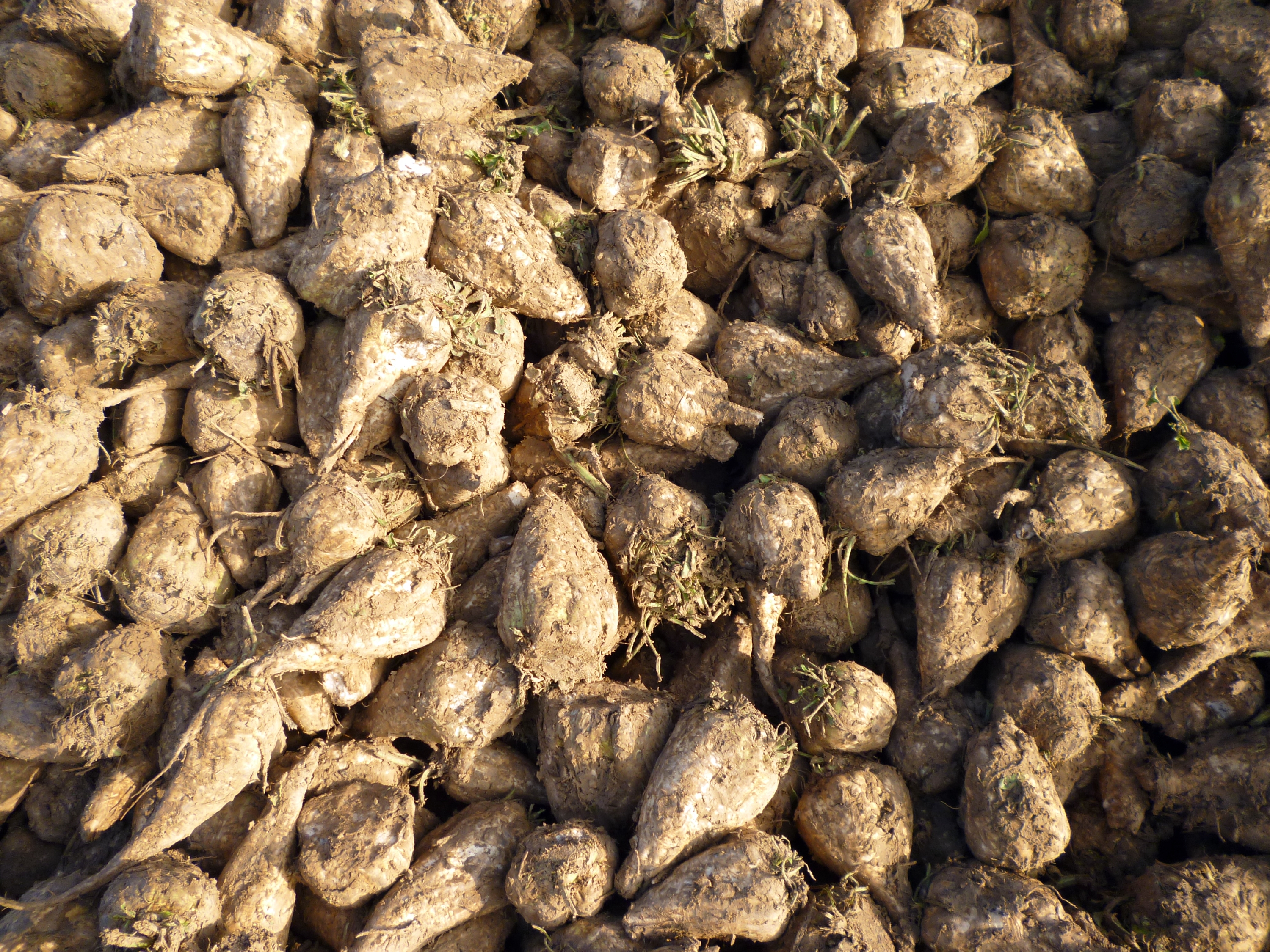 Close up of a pile of sugar beets at the road from Morsan to Berthouville (France).